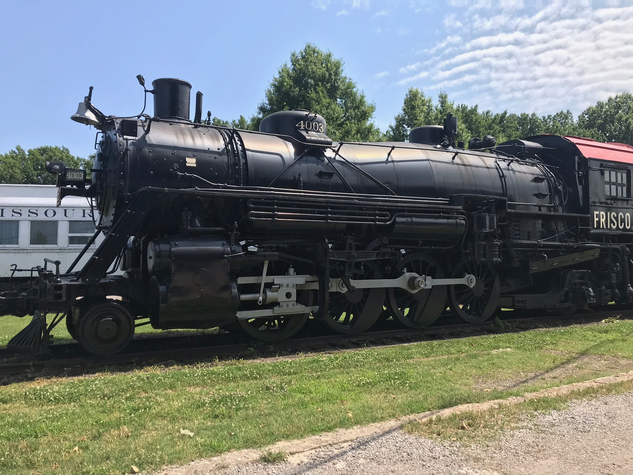 Frisco 4003 on May 31st of 2019